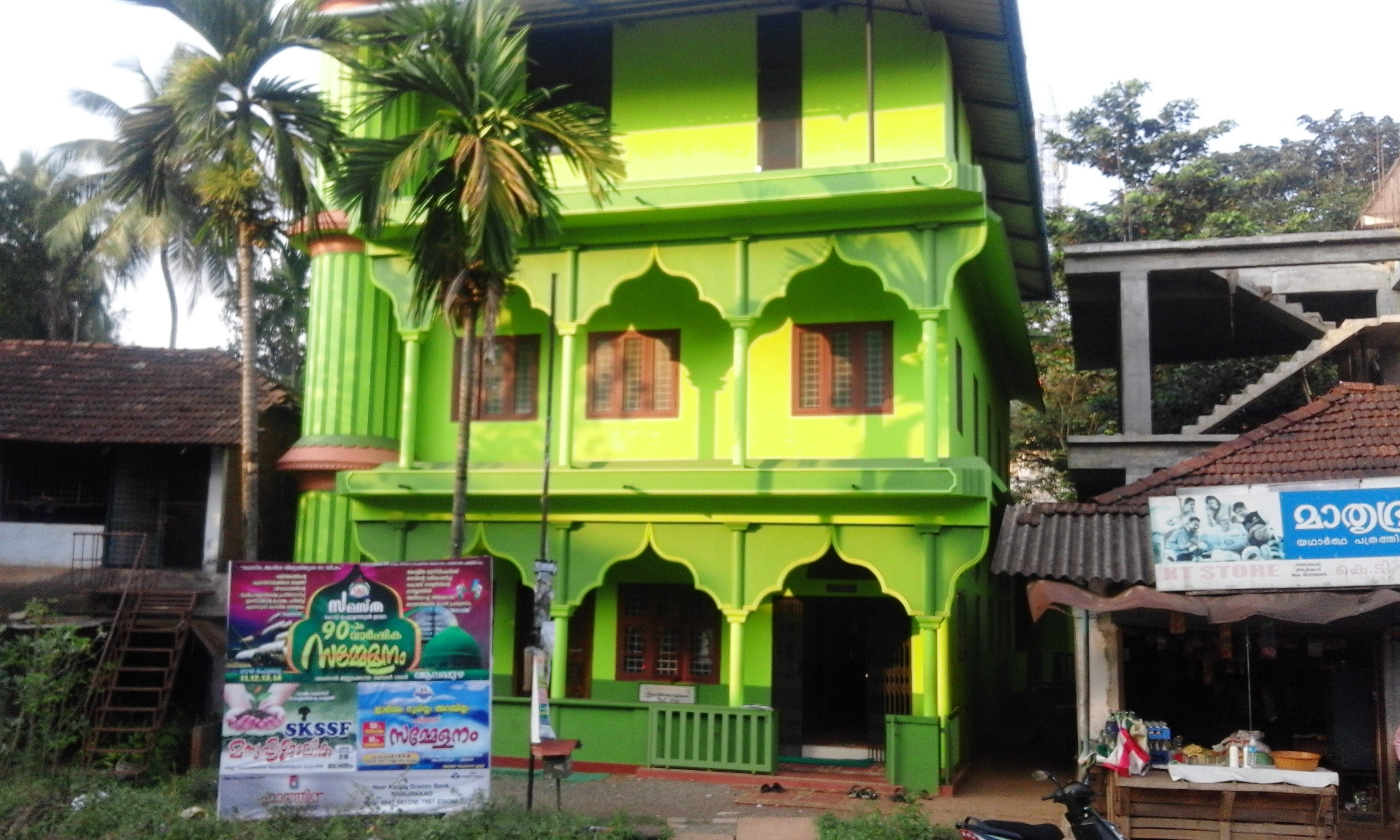 Tirurkad, Angadipuram, Perinthalmanna, Malappuram, Kerala, India.